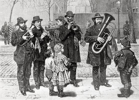 A German band in New York.German Band, from HARPER'S WEEKLY, April 26, 1876, courtesy of the General Research Division, The New York Public Library, Astor, Lenox and Tilden Foundations.